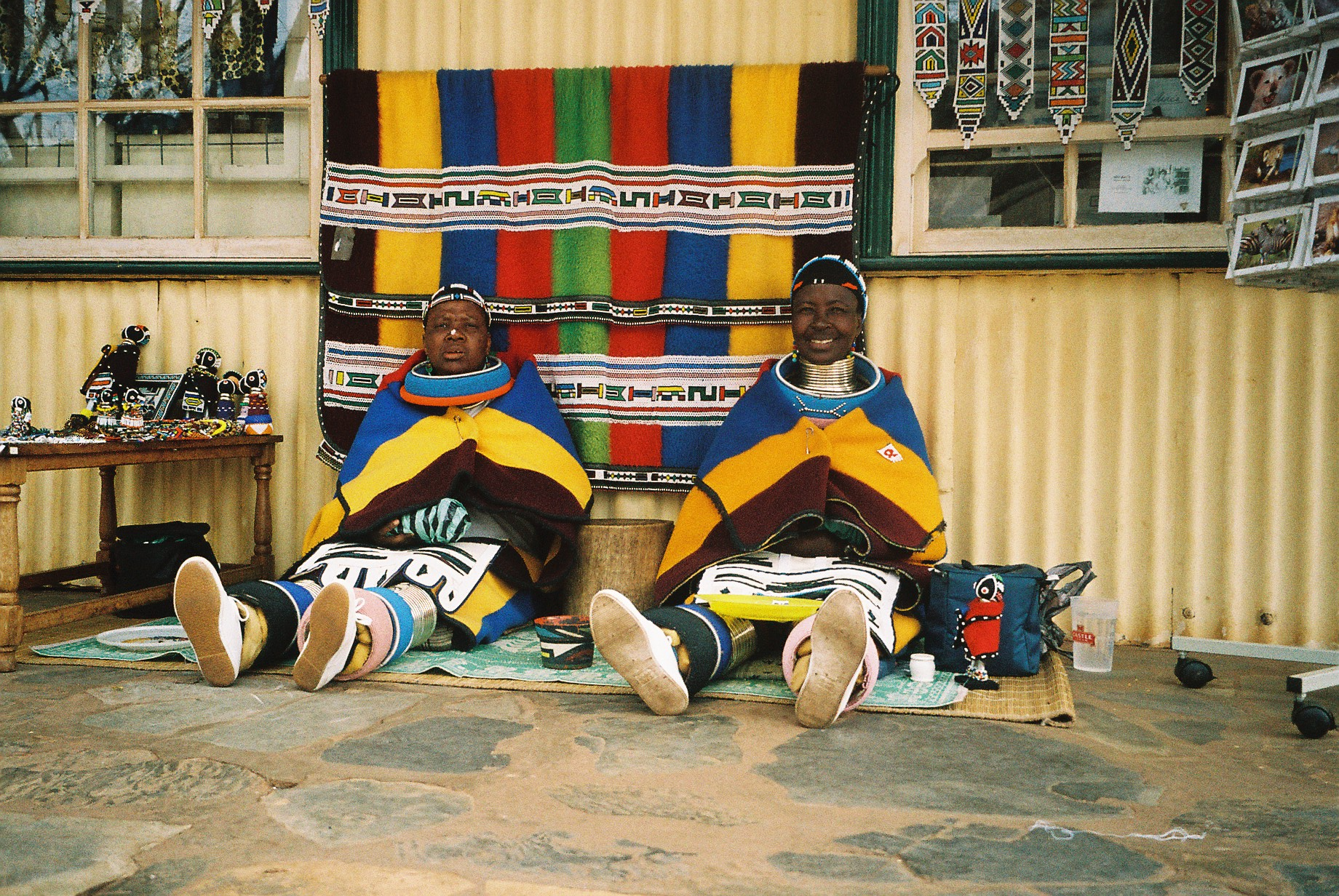 Ndebeles in South Africa